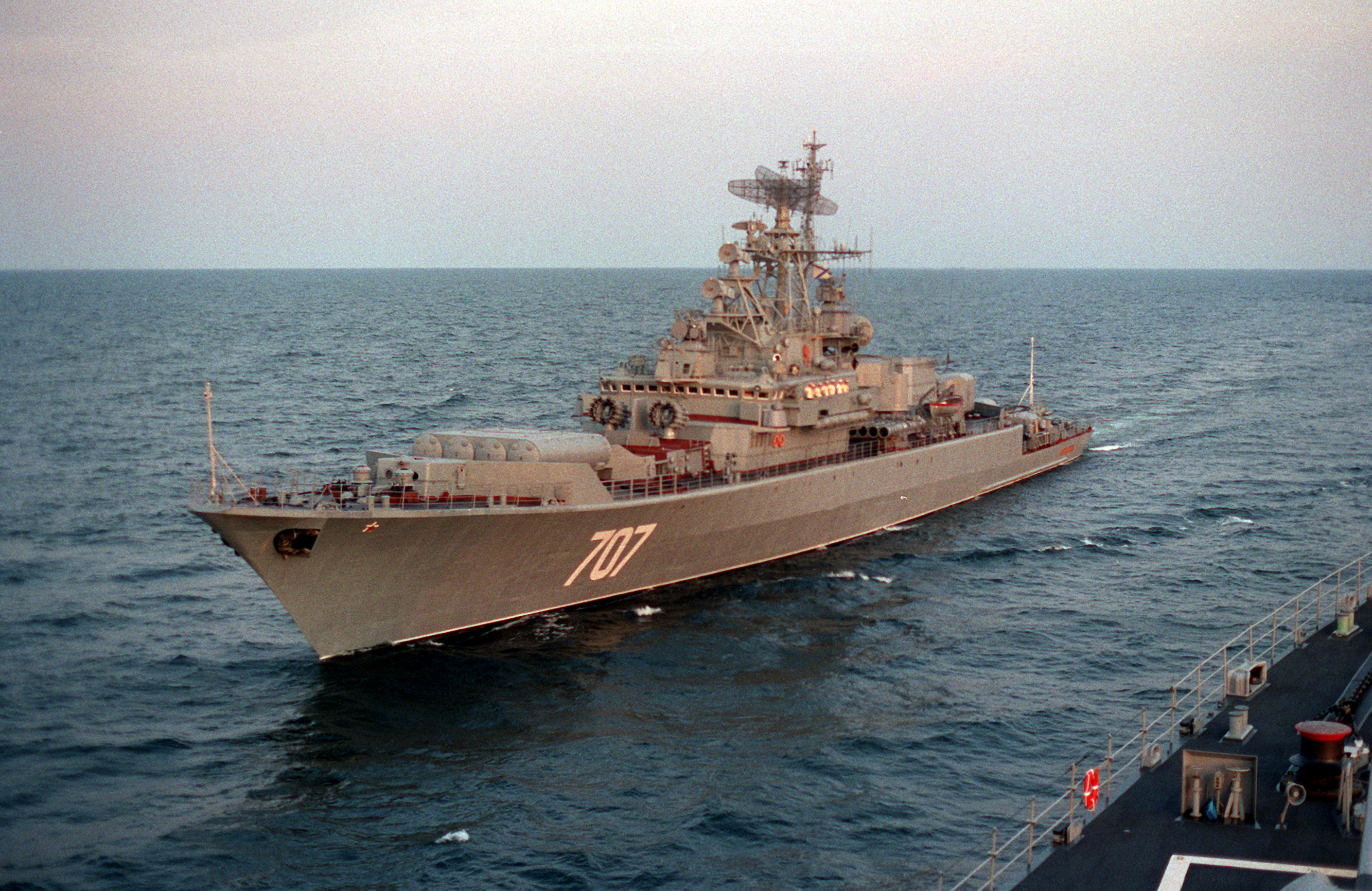 A port bow view of the Russian navy Krivak I class frigate BDITELNY during exercise BALTOPS '93. For the first time in the 22-year history of BALTOPS, the Eastern European countries of Estonia, Latvia, Lithuania, Poland and Russia were invited to participate in the non-military phases of the exercise.